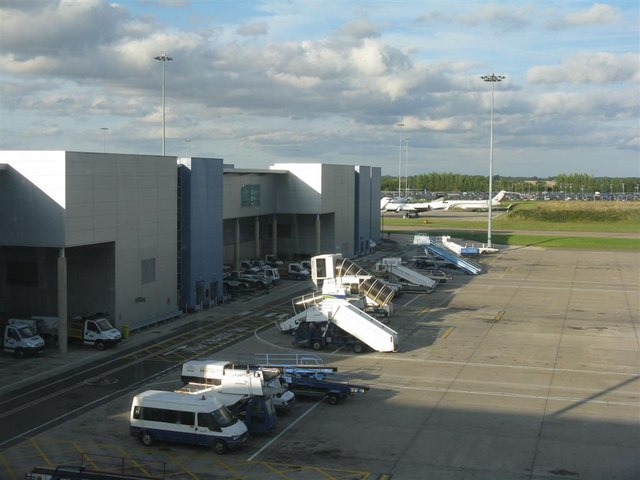 Boarding gates and apron at London Luton Airport